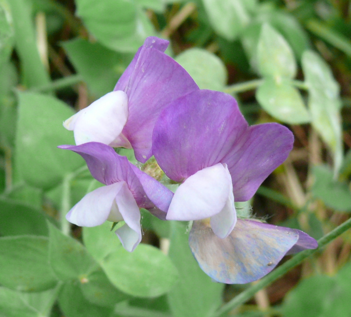 Lathyrus laxiflorus, Photo from Thasos